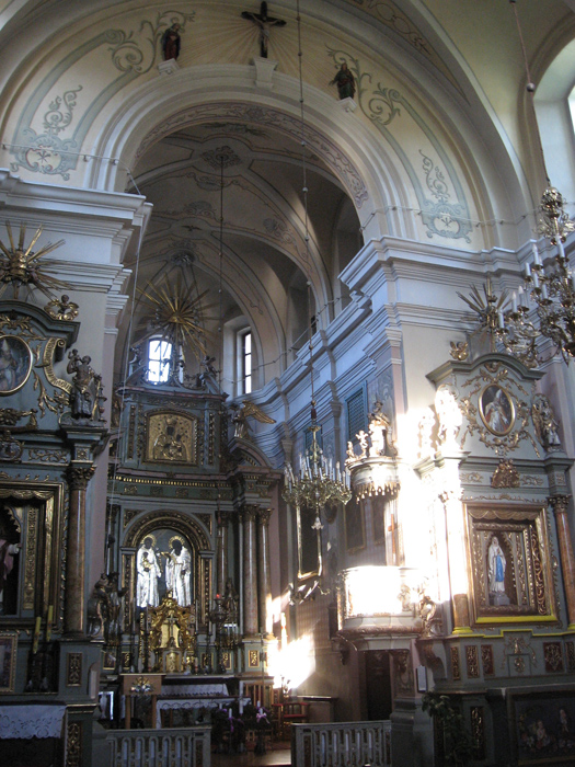 Interior of the Franciscan church of St. Anthony of Padua in Lviv (Leopolis)